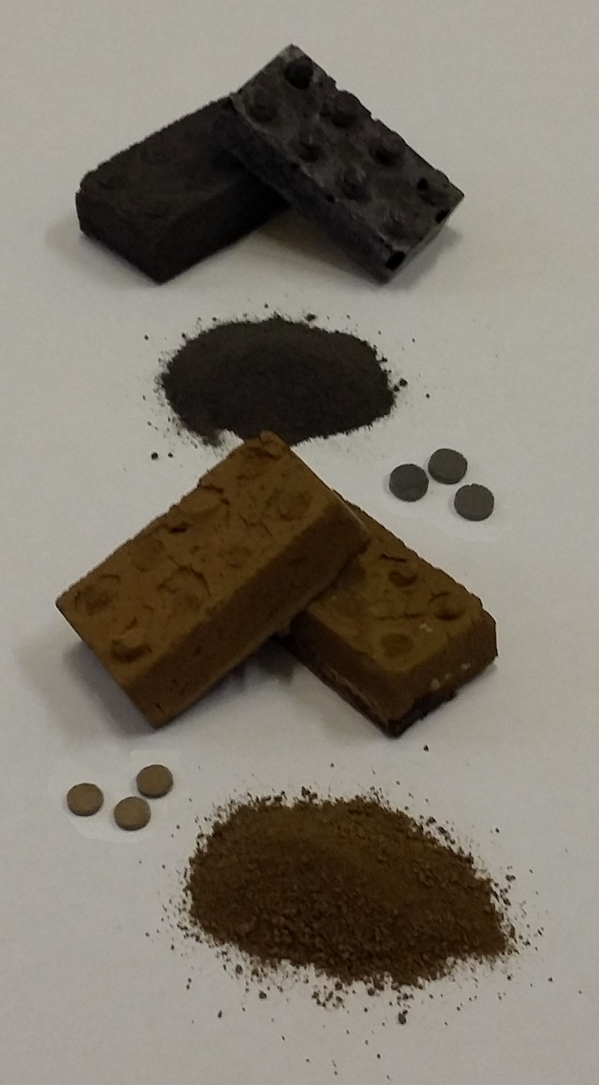 Lunar and Martial dust simulants samples after geopolymerization